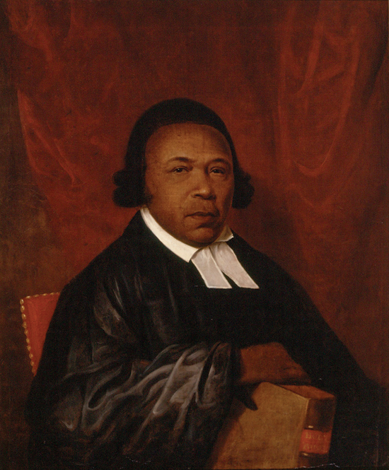 Raphaelle Peale was the first son of the American painter Charles Willson Peale and one of a large number of artist-children born to that branch of the Peale family. While Raphaelle was perhaps most famous for his still-life paintings, his portraits are highly regarded. The Reverend Absalom Jones was the prominent black minister of the St. Thomas African Episcopal Church in Philadelphia. Born a slave in Sussex, Delaware, Jones eventually won his freedom, was a founding member of the Free African Society, was ordained the first black priest of the Episcopal denomination, and helped to organize a school for black children.